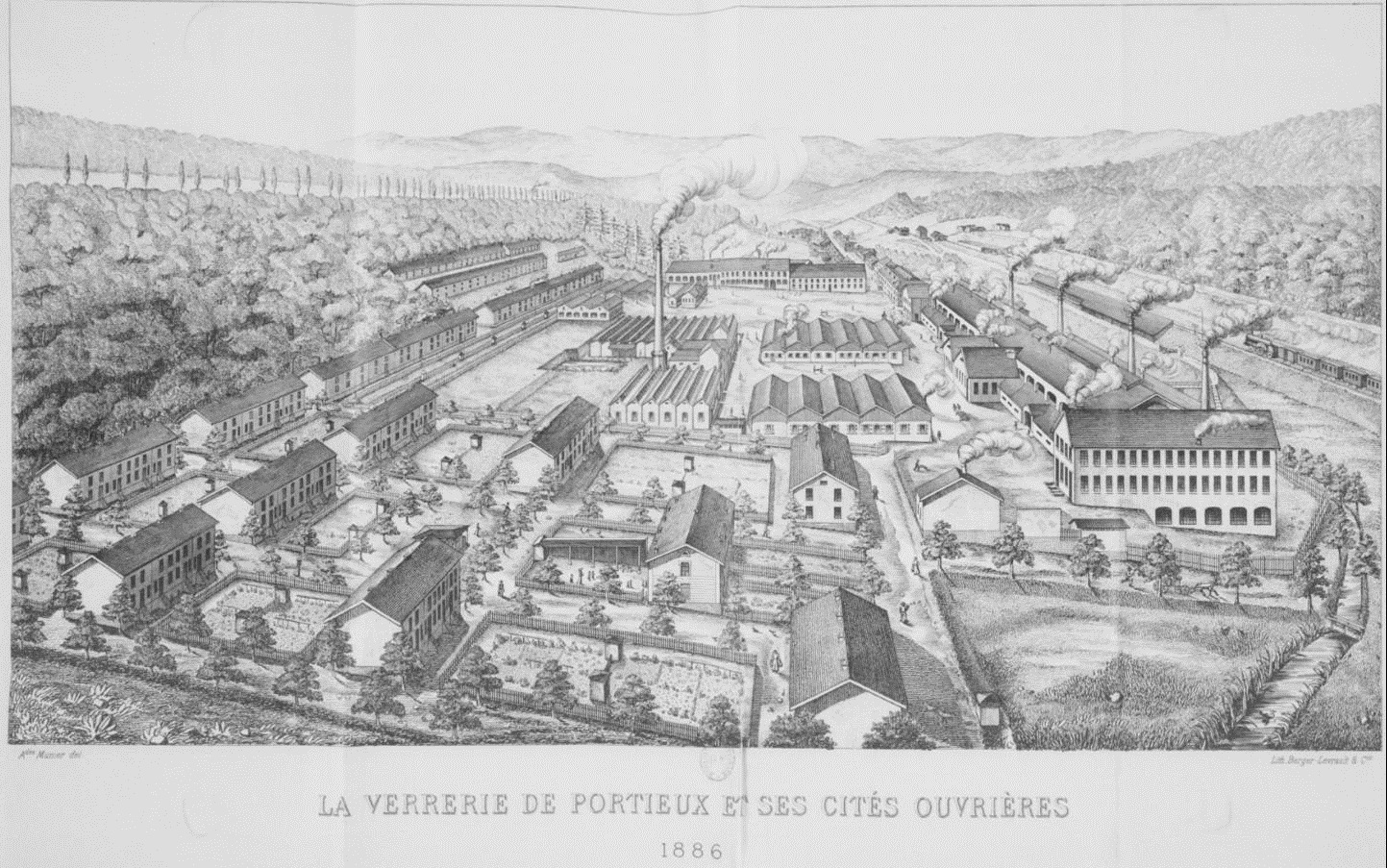 Lithograph of the Portieux factory as of 1886